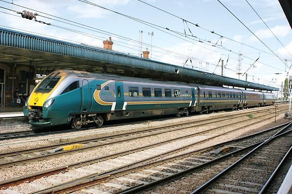 Bombardier (Brugge) Class 222 "Pioneer" 4-car dmu No.222 104 "Sir Terry Farrell" at Doncaster on a Hull Paragaon - King's Cross service, 07/08.